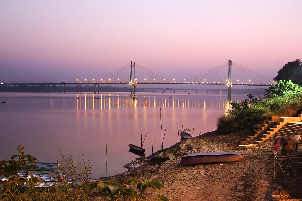 This is a view from Saraswati Ghat (riven landing) in Prayagraj; View of Vidyasagar Set, Kolkata, West Bengal, India